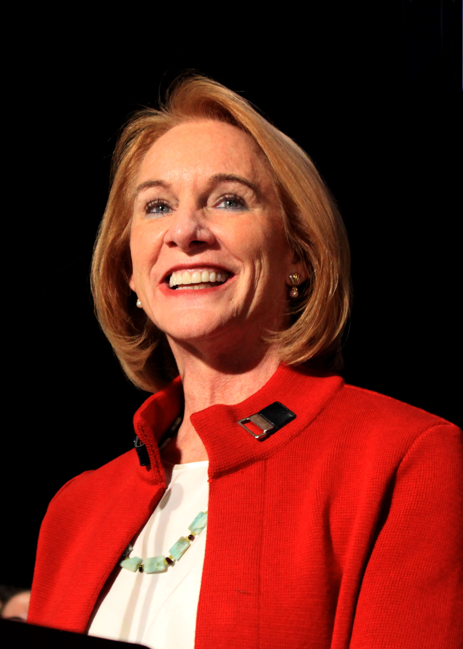 Official headshot of Mayor Jenny Durkan, Mayor of Seattle